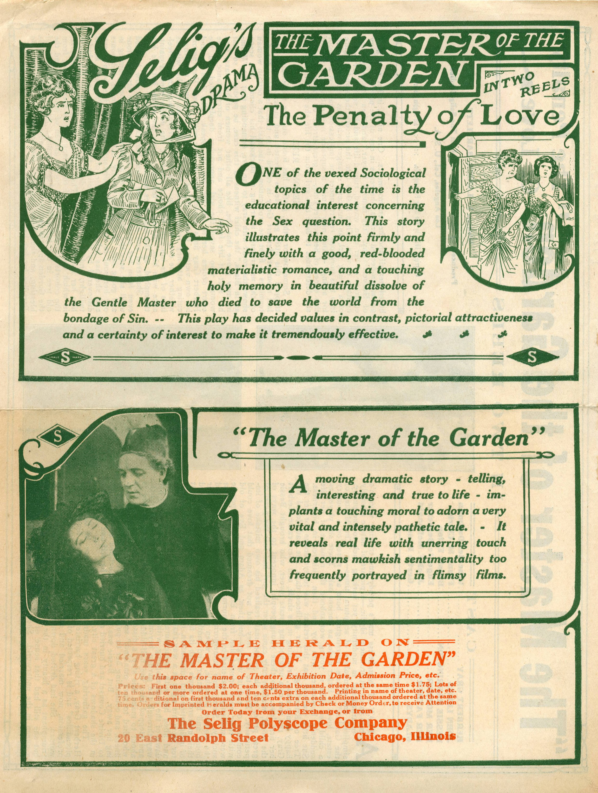 Release flier for THE MASTER OF THE GARDEN, 1913 (Page 1)